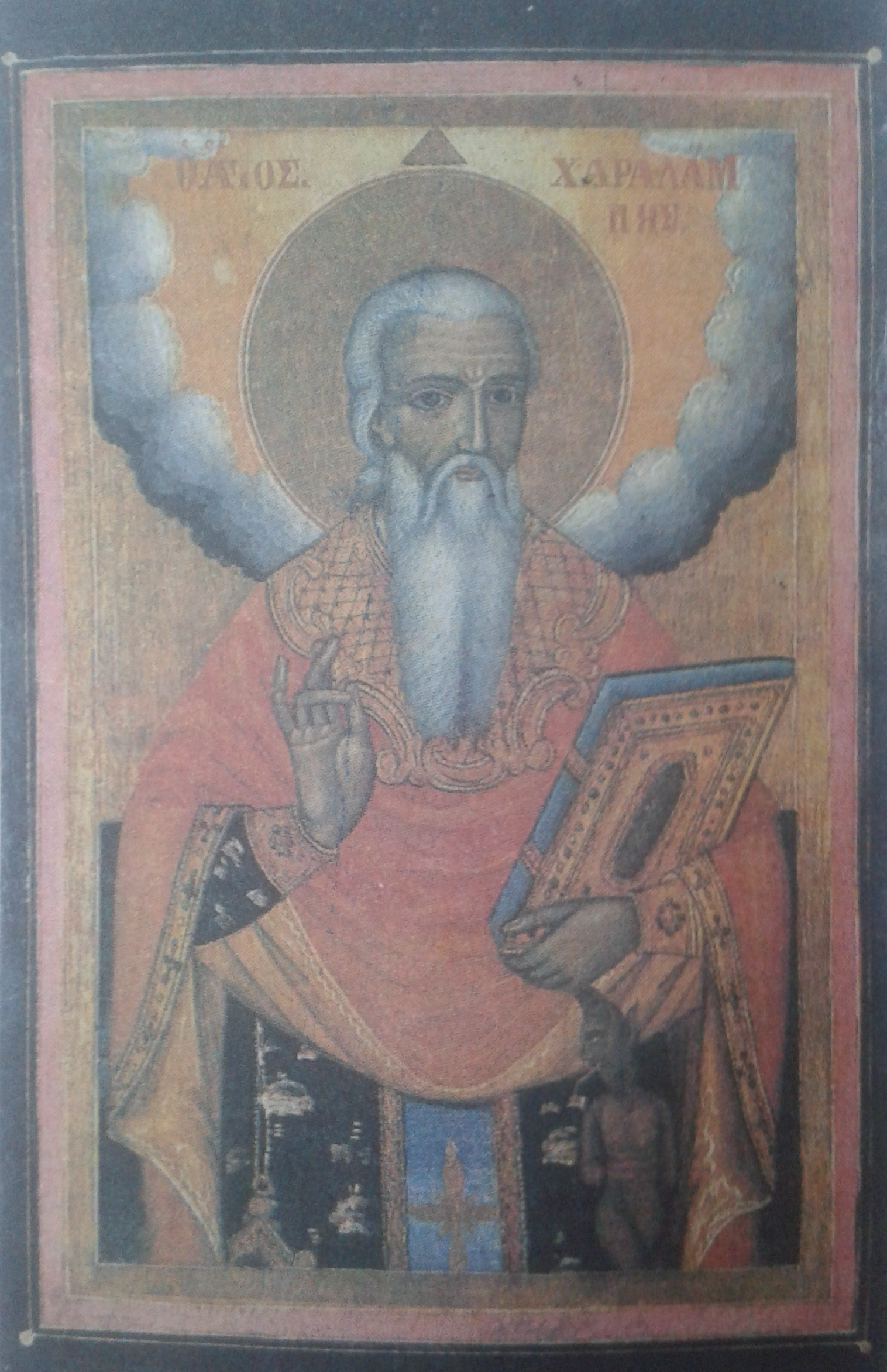 St Haralampius Icon by Lazar Argirov. St Nicholas church in Melnik, Bulgaria.